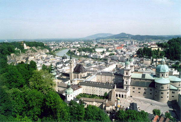 View over the Austrian city of Salzburg as seen from Hohensalzburg Fortress.